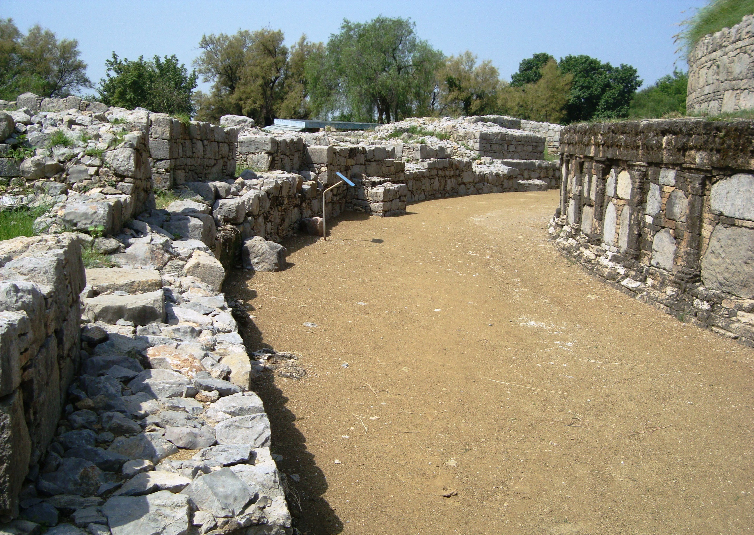 Dharmarajika stupa and monastery This is a photo of a monument in Pakistan identified as the PB-127